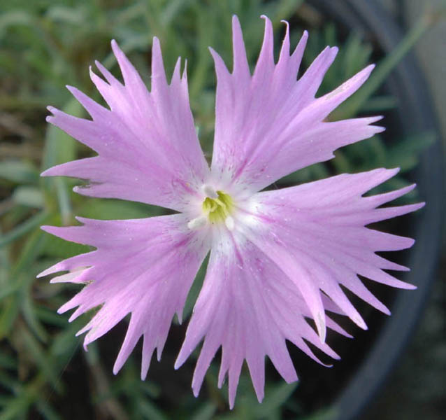 Dianthus monspessulanus subsp. sternbergii